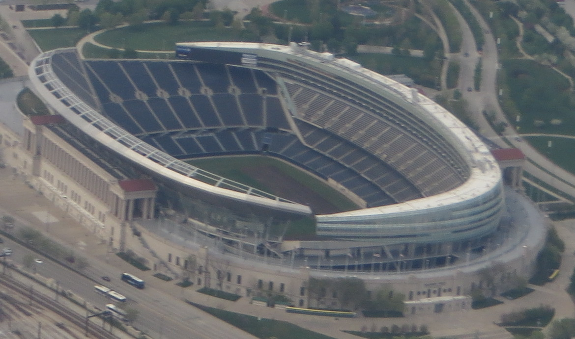 Soldier Field is a football stadium on the Near South Side of Chicago, Illinois, United States. Since 1971 Soldier Field has been home of the National Football League's Chicago Bears, and is the oldest NFL stadium. With a capacity of 61,500, it is the second smallest stadium in the NFL. Soldier Field reopened in 2003 after an extensive interior renovation.